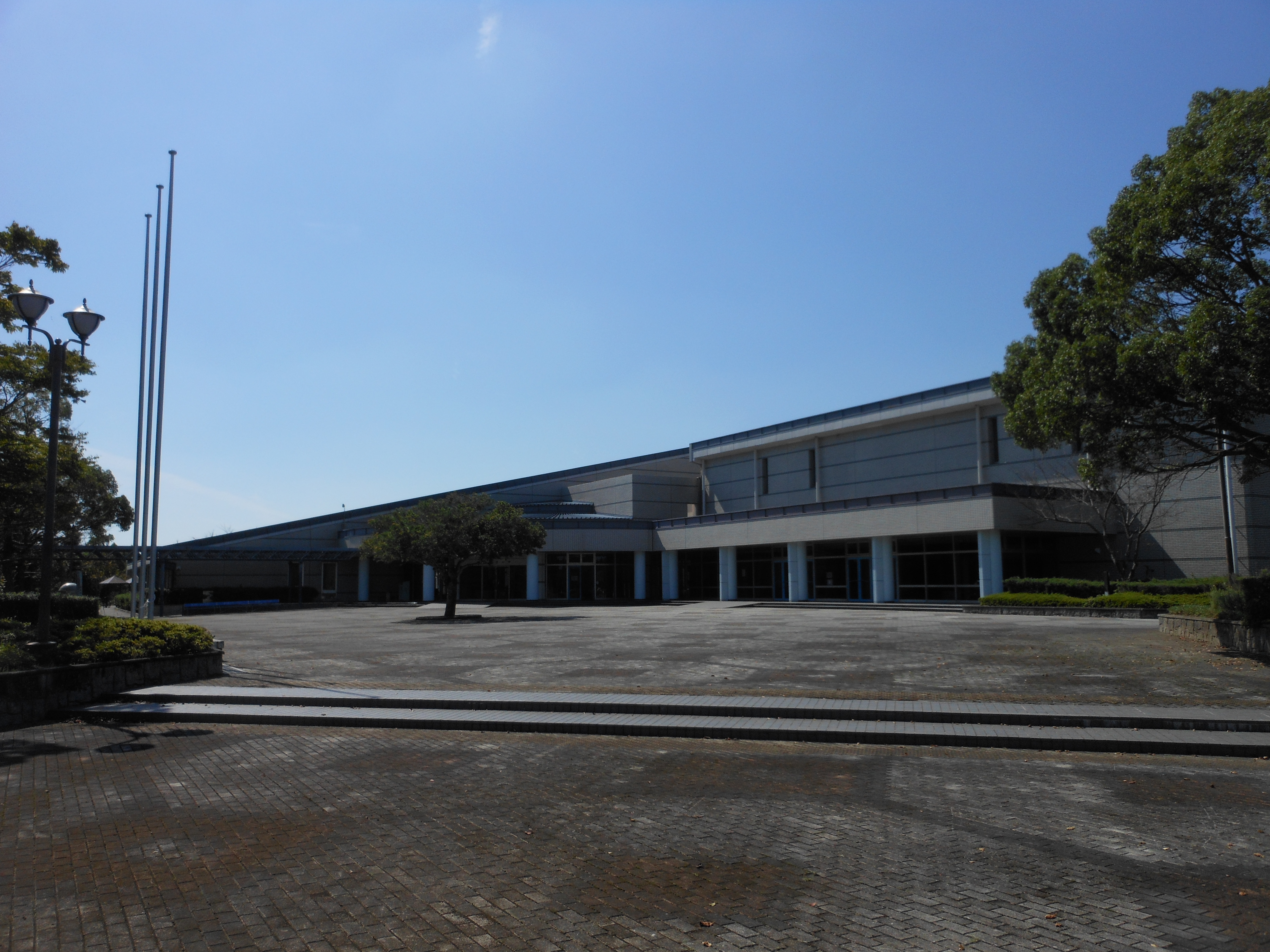 This is a hall in Shima, Mie, Japan.